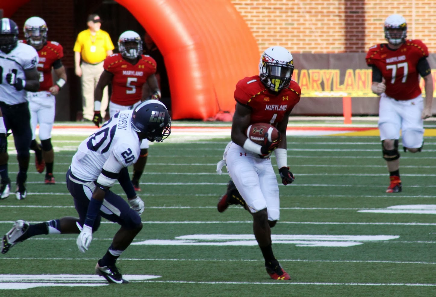 Stefon Diggs picks up 33 yards on a reception vs. Old Dominion University during the Terps 47-10 win on September 7, 2013.